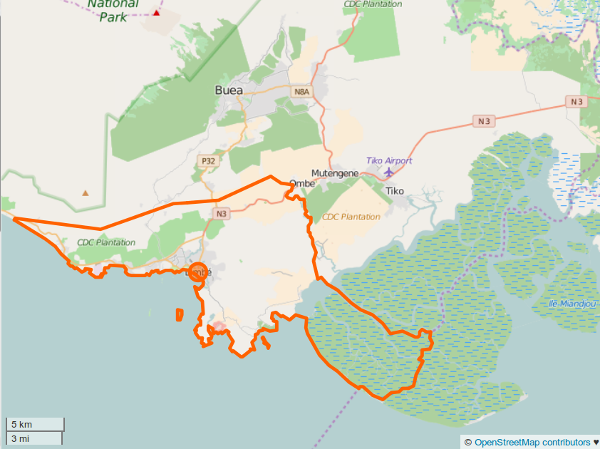 OSM map of Limbé, Cameroon. This map may be incomplete, and may contain errors. Don't rely solely on it for navigation.